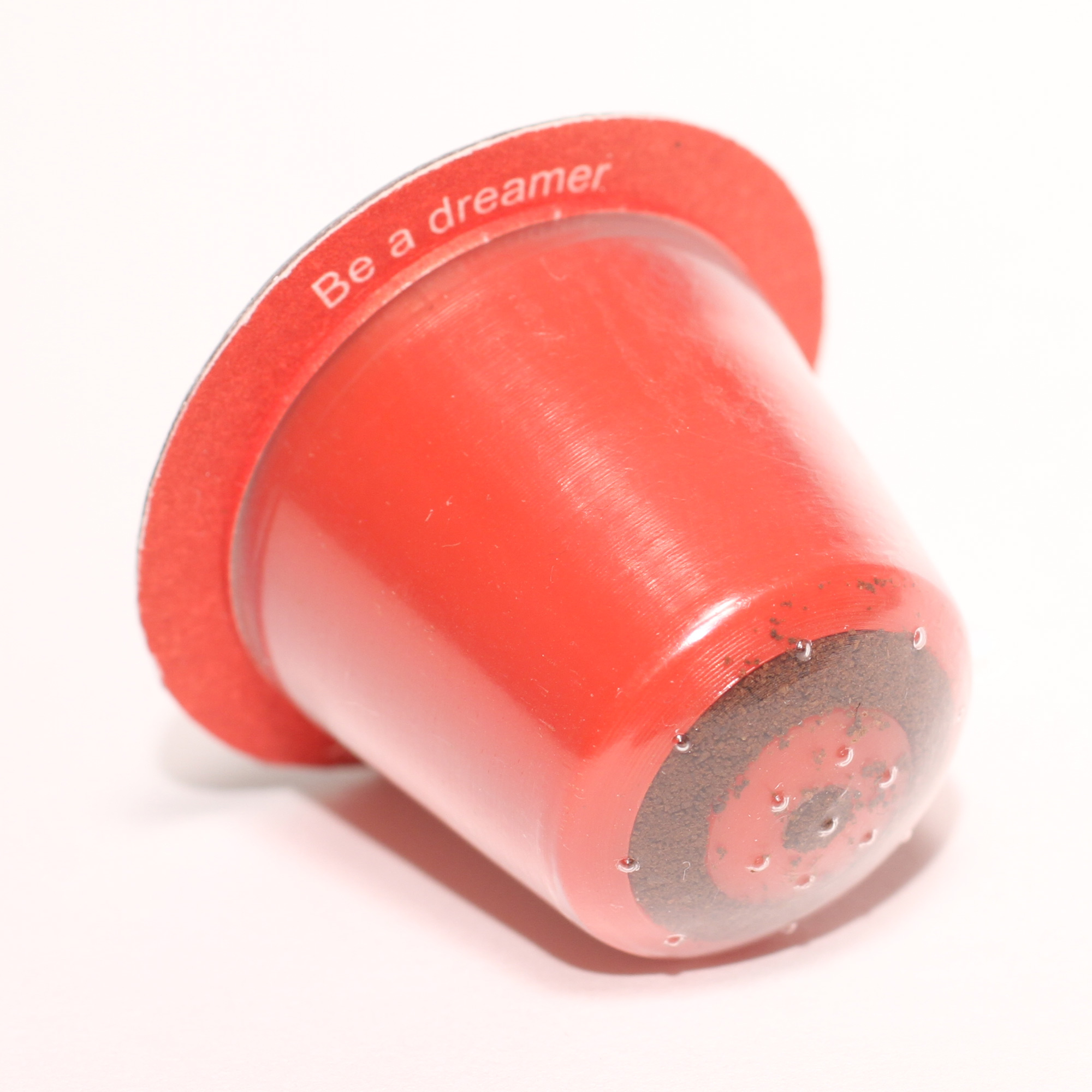 Velibre Raed Coffee Capsule